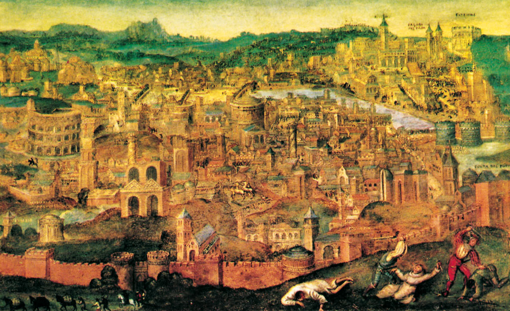 A Panorama of the Sack of Rome (1527)